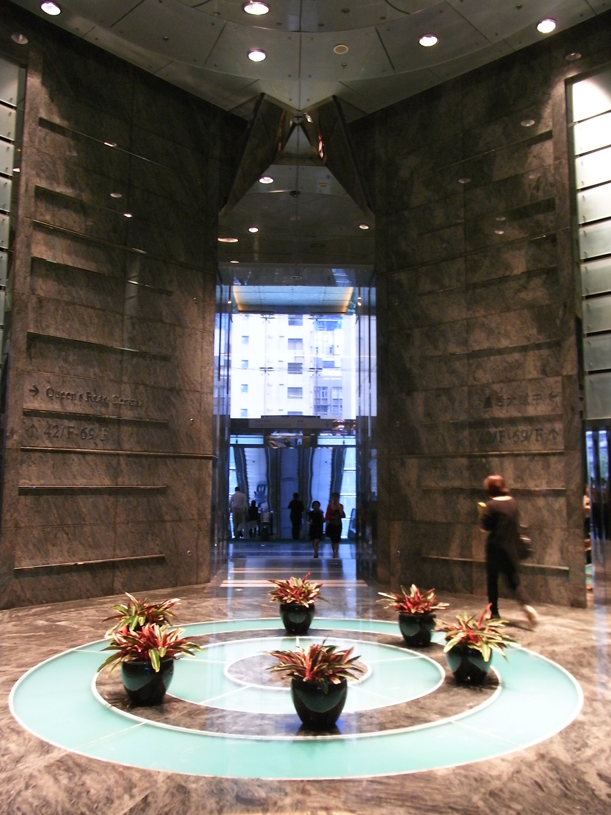 中環中心, The Center, No.99 Queen's Road Central, Hong Kong